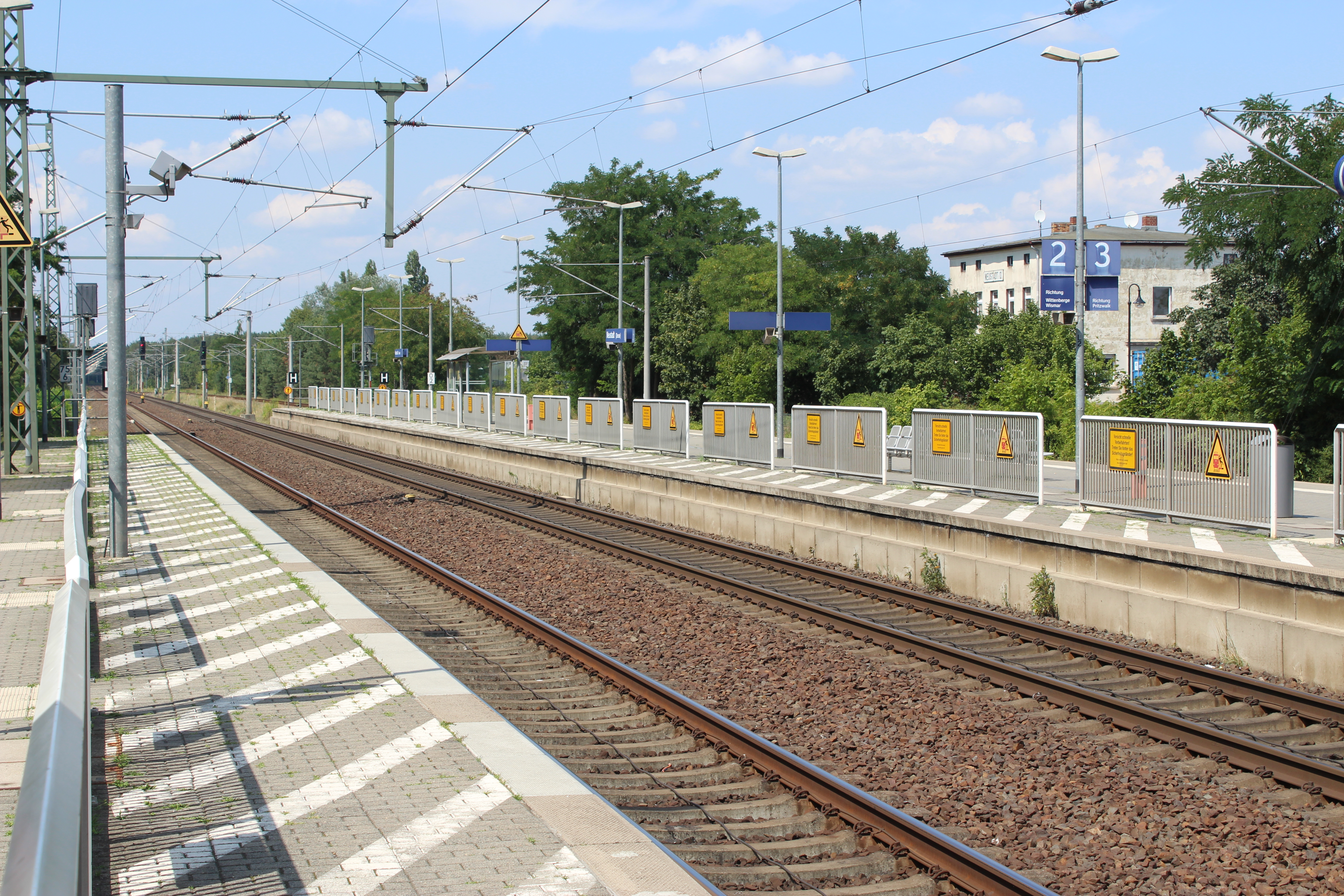 train station Neustadt (Dosse), platforms